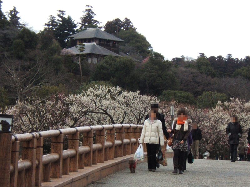 Kairaku-en Kobuntei, view form Kairaku-en Park extension ground. Mito, Ibaraki, Japan.